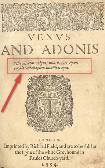 Frontcover of The Poem "Venus and Adonis" . First printed work of William Shakespeare(1593) with a two line latin inscription, which is the 7th and 8th last line out of Ovids Elegy I-15 (Death of a Poet), which Christopher Marlowe fully translated into English years earlier.Reprint of 1594.